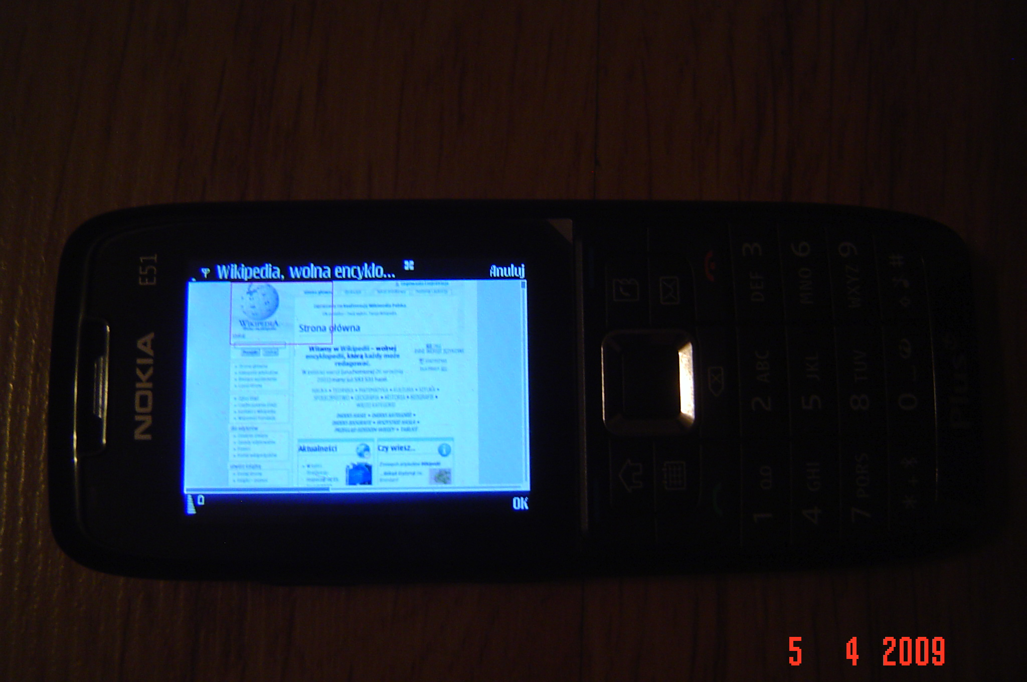 Nokia E51 black